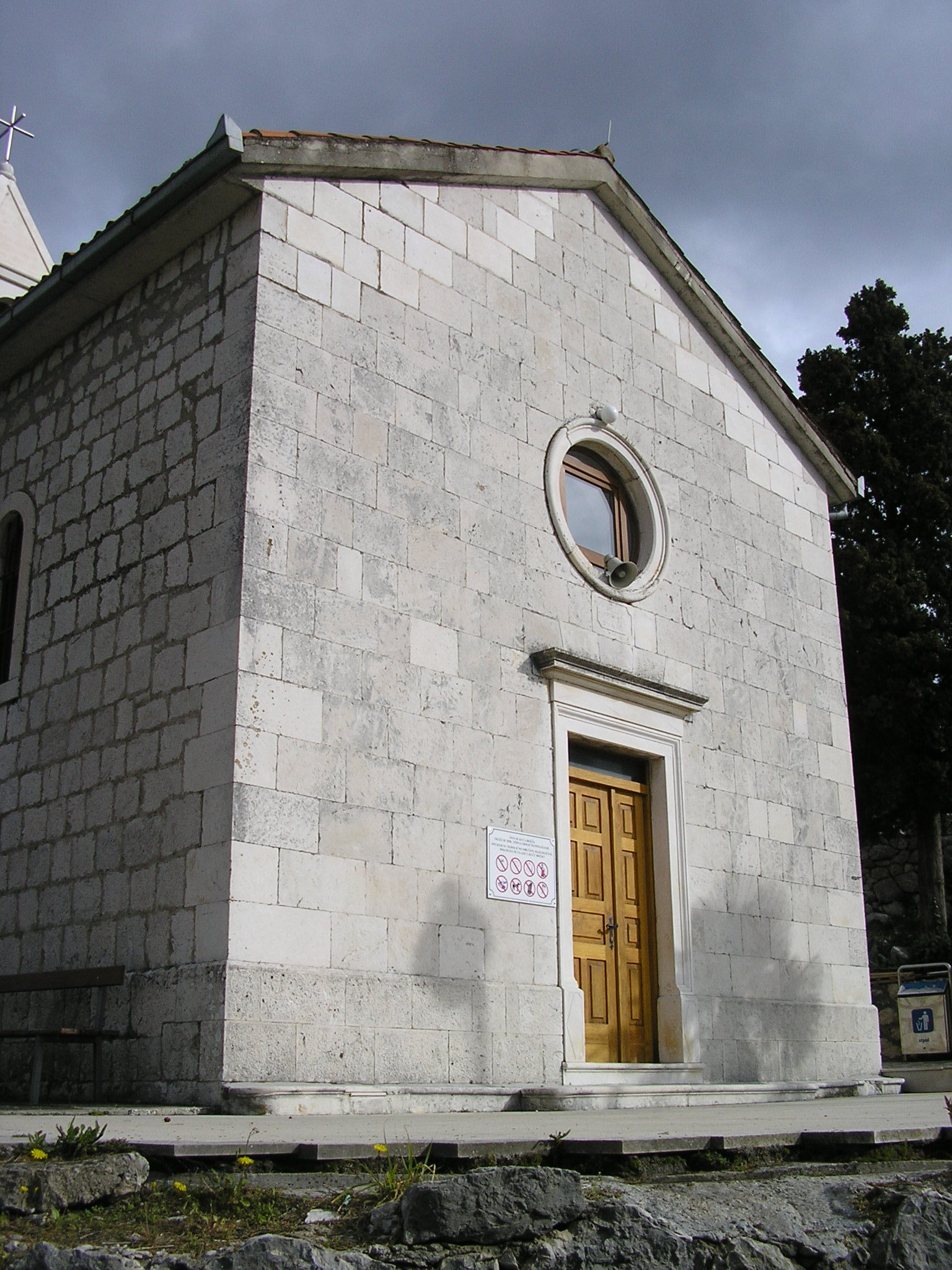 Holy Trinity church in Rogotin